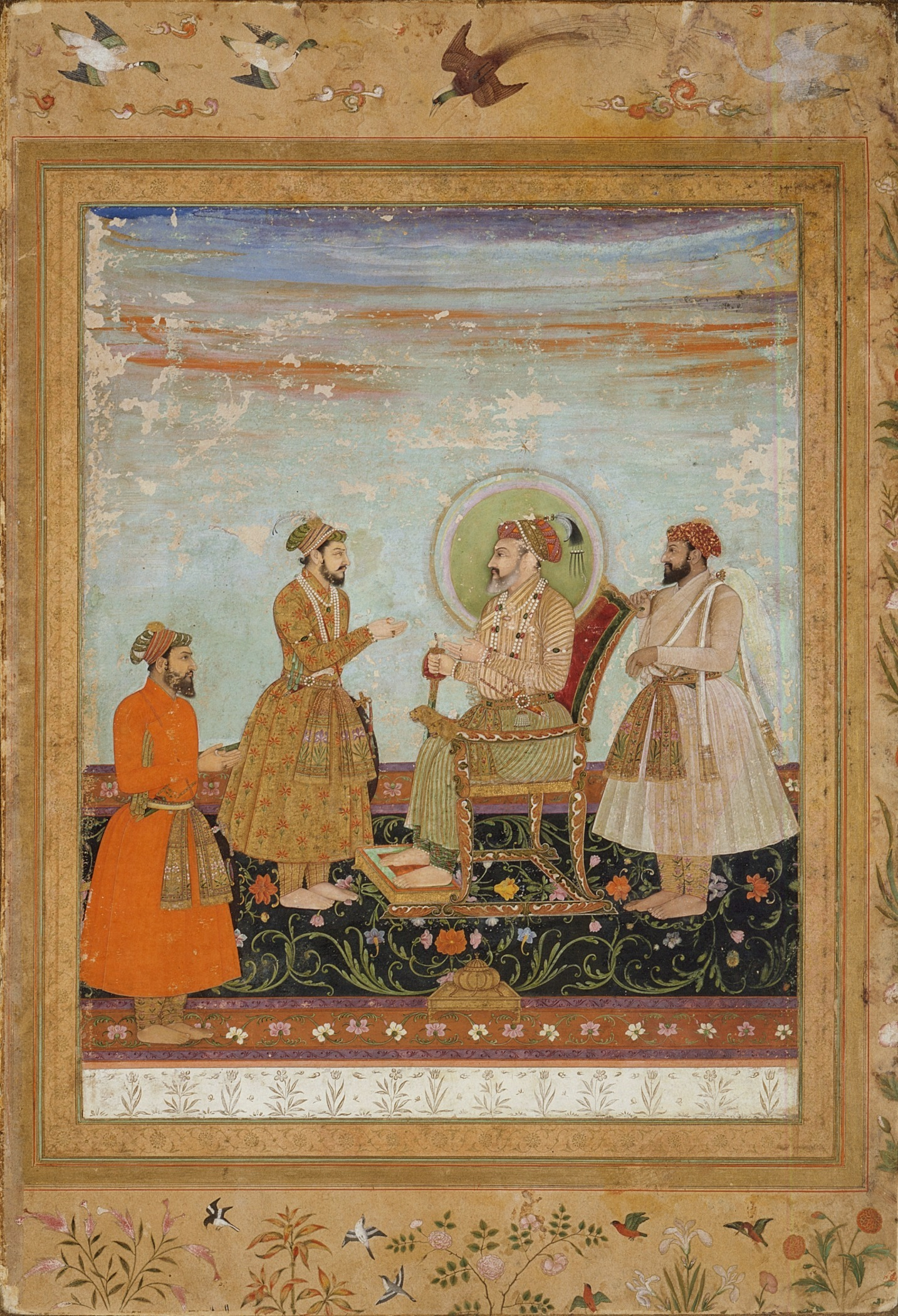 Shah Jahan Receiving Dara Shikoh, Folio from the Late Shah Jahan Album, circa 1650 Painting; Watercolor, Opaque watercolor, gold, and ink on paper, Sheet: 14 5/8 x 10 in. (37.15 x 25.4 cm); Image: 10 1/8 x 7 7/8 in. (25.72 x 20.0 cm) From the Nasli and Alice Heeramaneck Collection, Museum Associates Purchase (M.83.105.21) South and Southeast Asian Art Department.